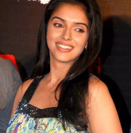 Asin at The Cast And Crew Of Ghajini Celebrate The Film's 200 Crores Collections Worldwide